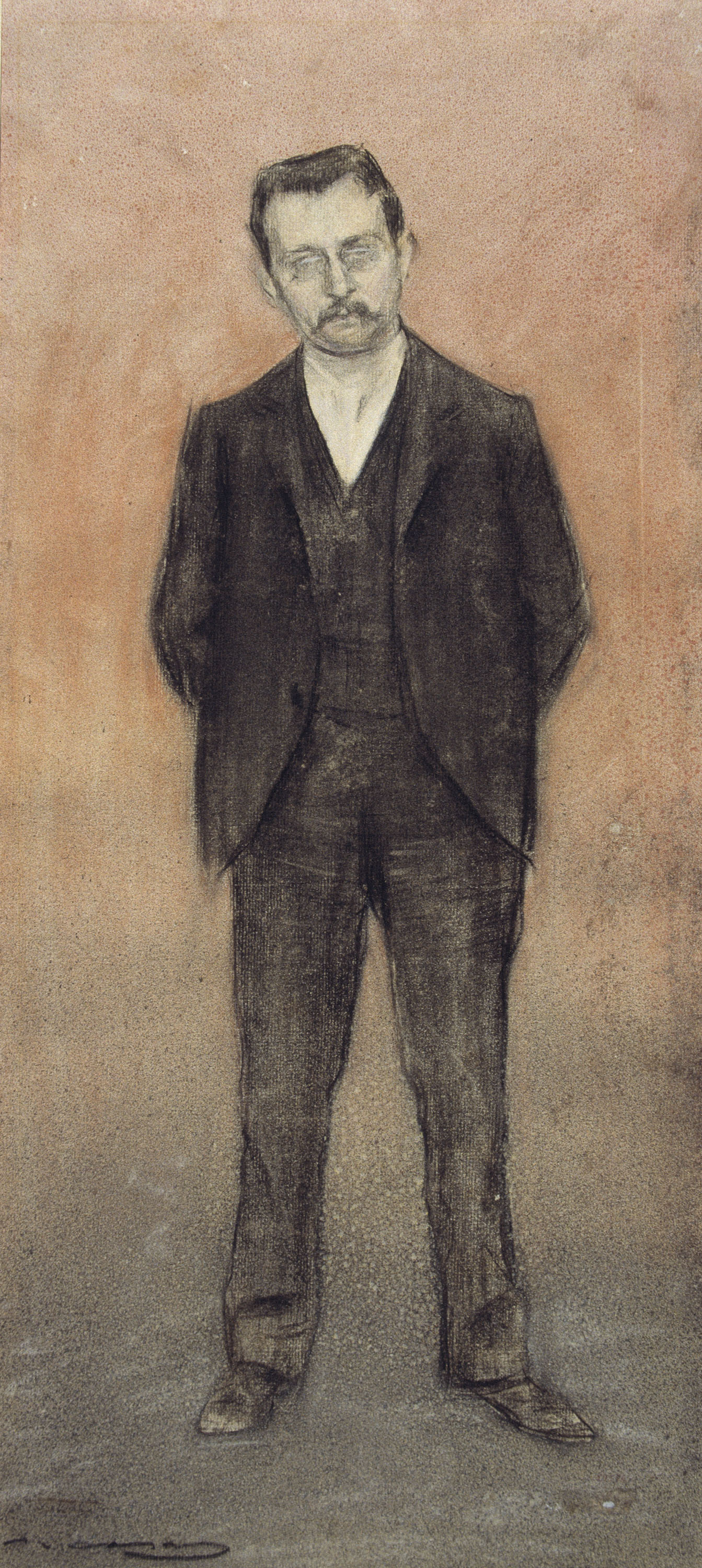 Portrait by Ramon Casas conserved at MNAC in Barcelona. Imagen 052